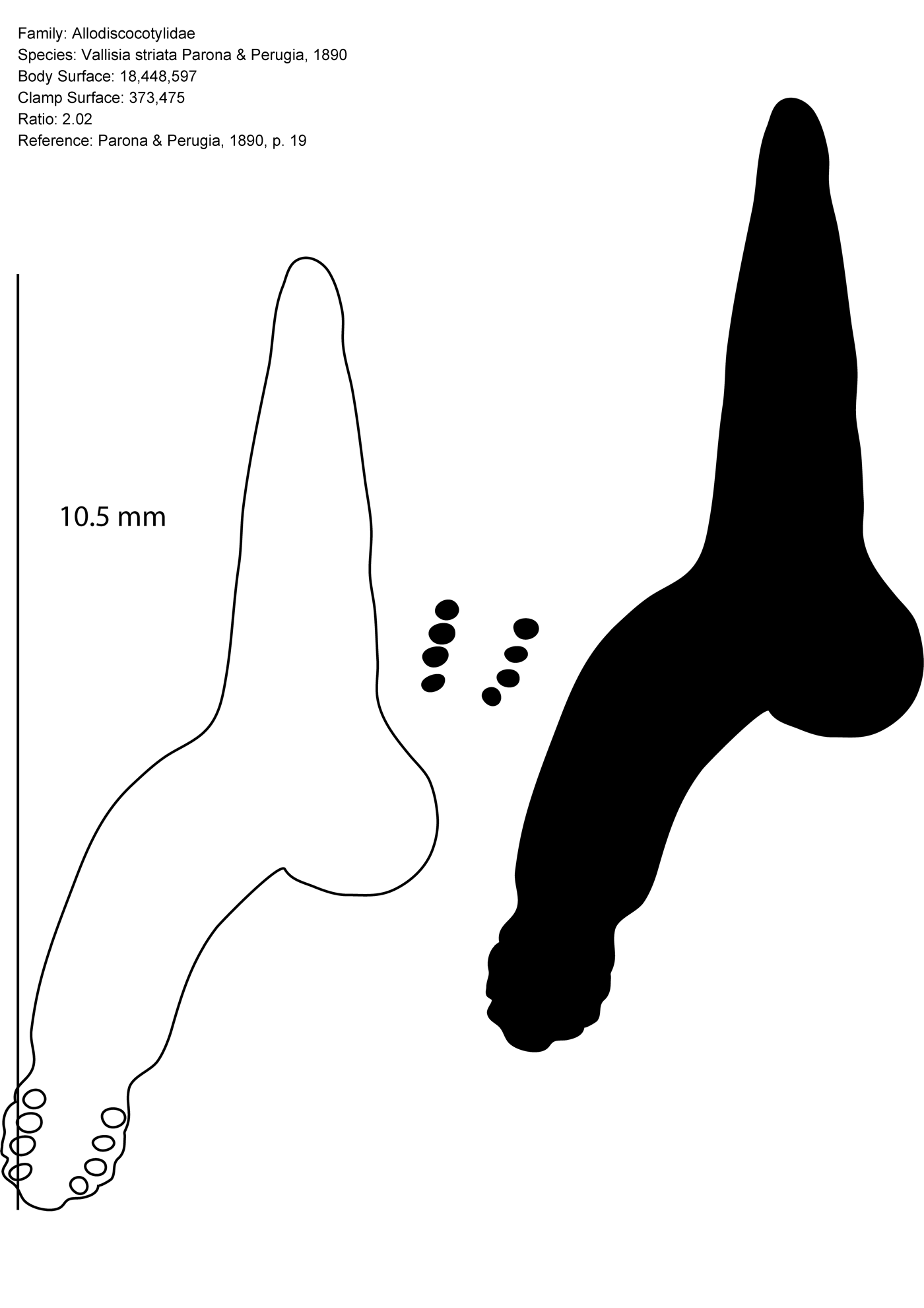 Vallisia striata Parona & Perugia, 1890 Cropped from: Supporting Information file S1 PDF of all figures and measurements of clamp and body surfaces. Total number of figures: 120.